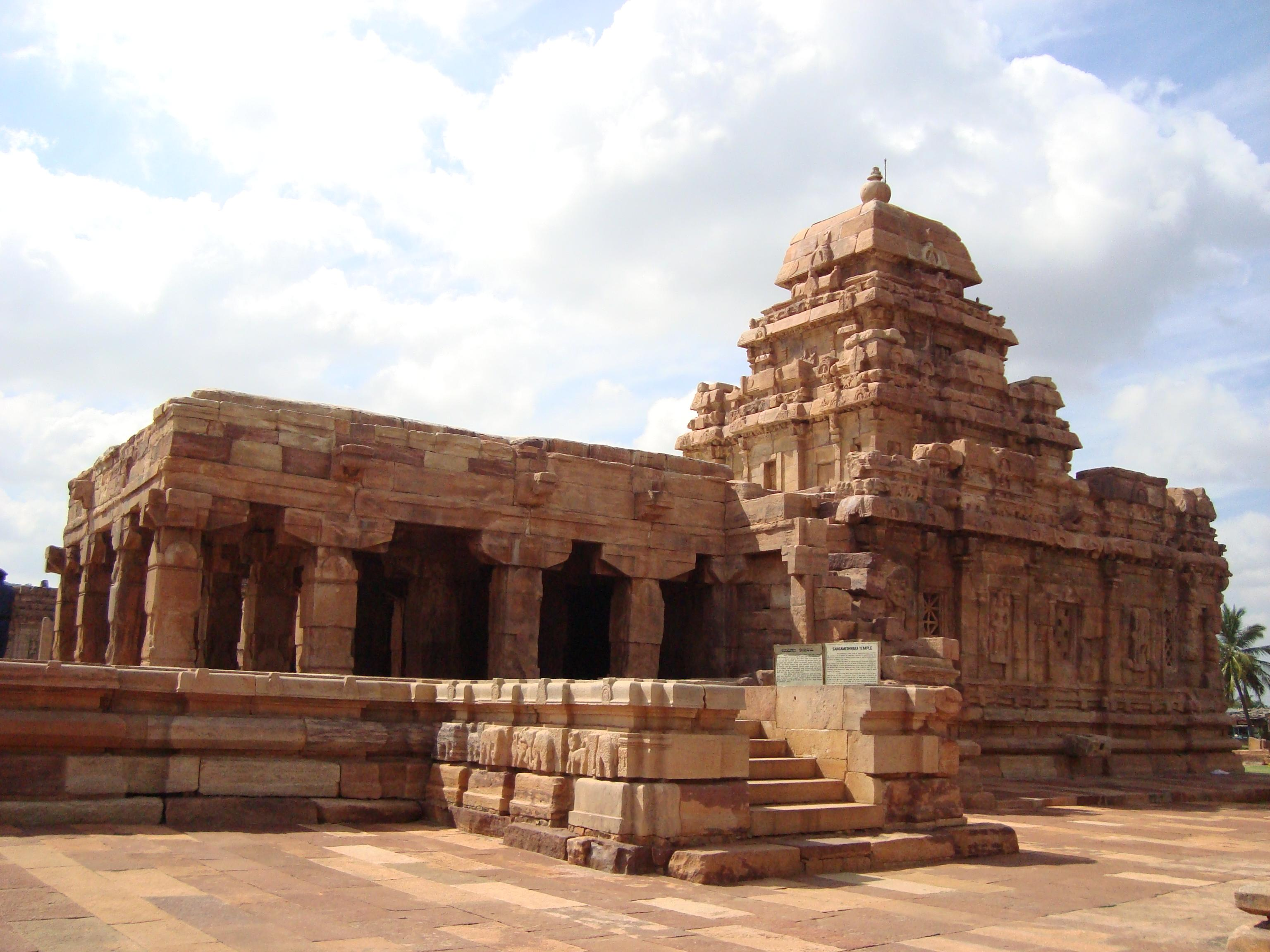 Sangameshvara temple at Pattadakal Manjuanth Doddamani, Gajendragad / Hubli, Karnataka, India